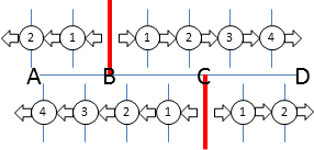 Evolution of a Mid-ocean ridge.